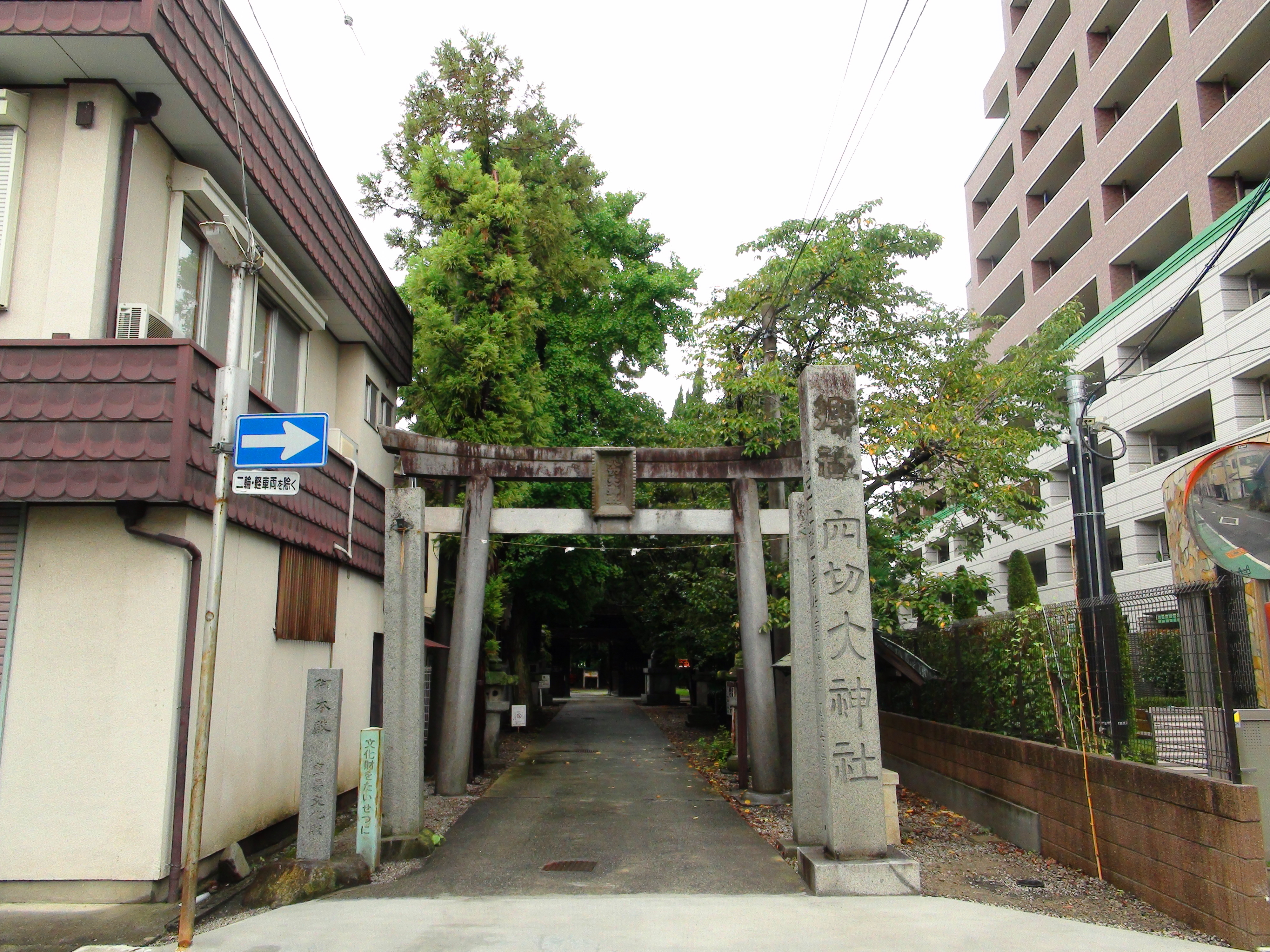 Anagiri shrine entrance